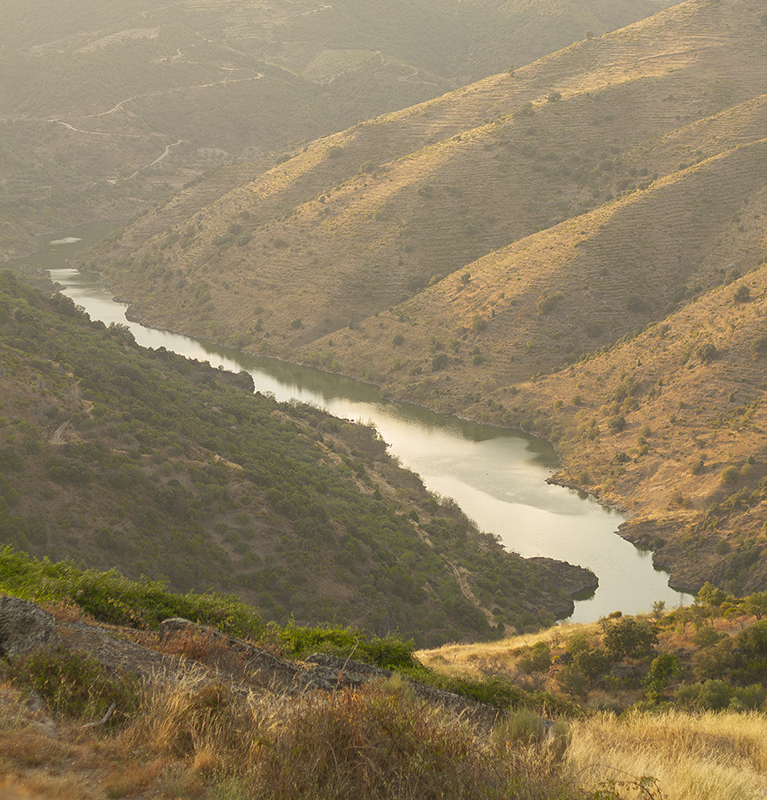 The arribes of Duero in summer, Villarino de los Aires, Castile and León (Spain)